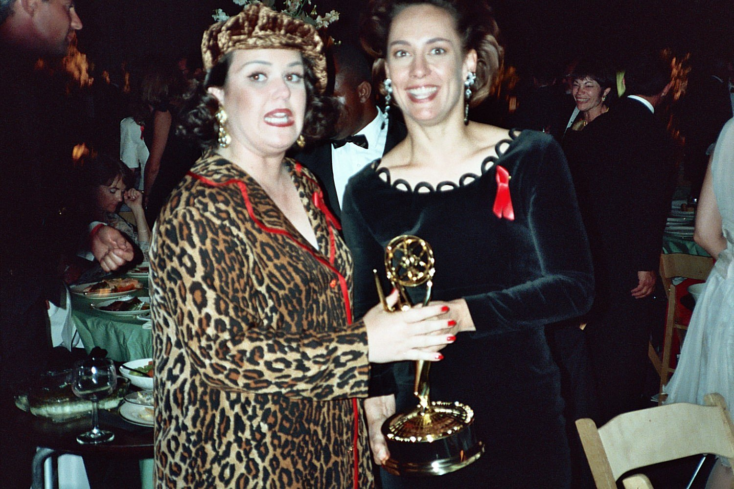 Actresses Rosie O'Donnell and Laurie Metcalf at the Emmy Awards